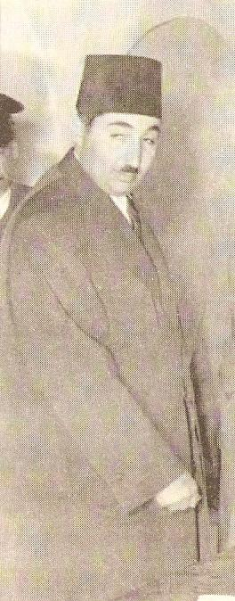 Libyan prime minister Mahmud al-Muntasir is voting in Libya's first parliamentary elections after independence.